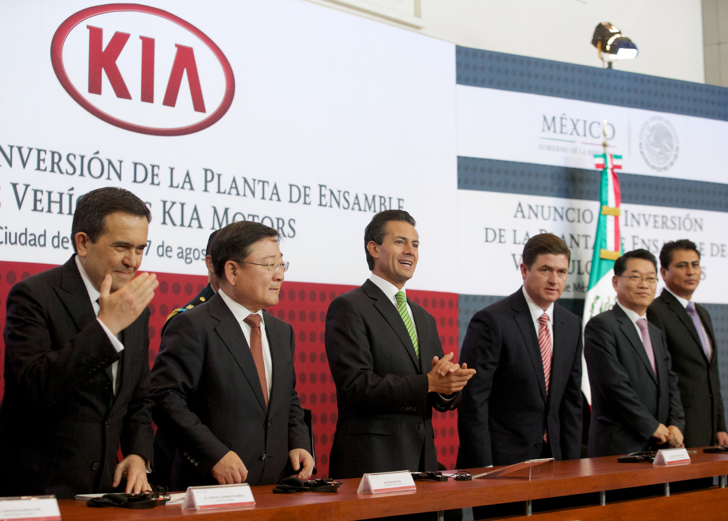 Anuncio de inversión de la Planta de Ensamble de Vehículos Kia Motors. Ciudad de México. 27 de agosto de 2014.